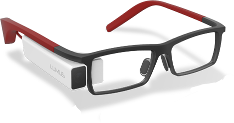 DK40 image